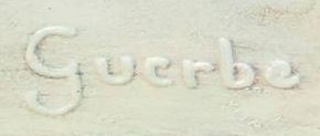 Signature of Raymonde Guerbe